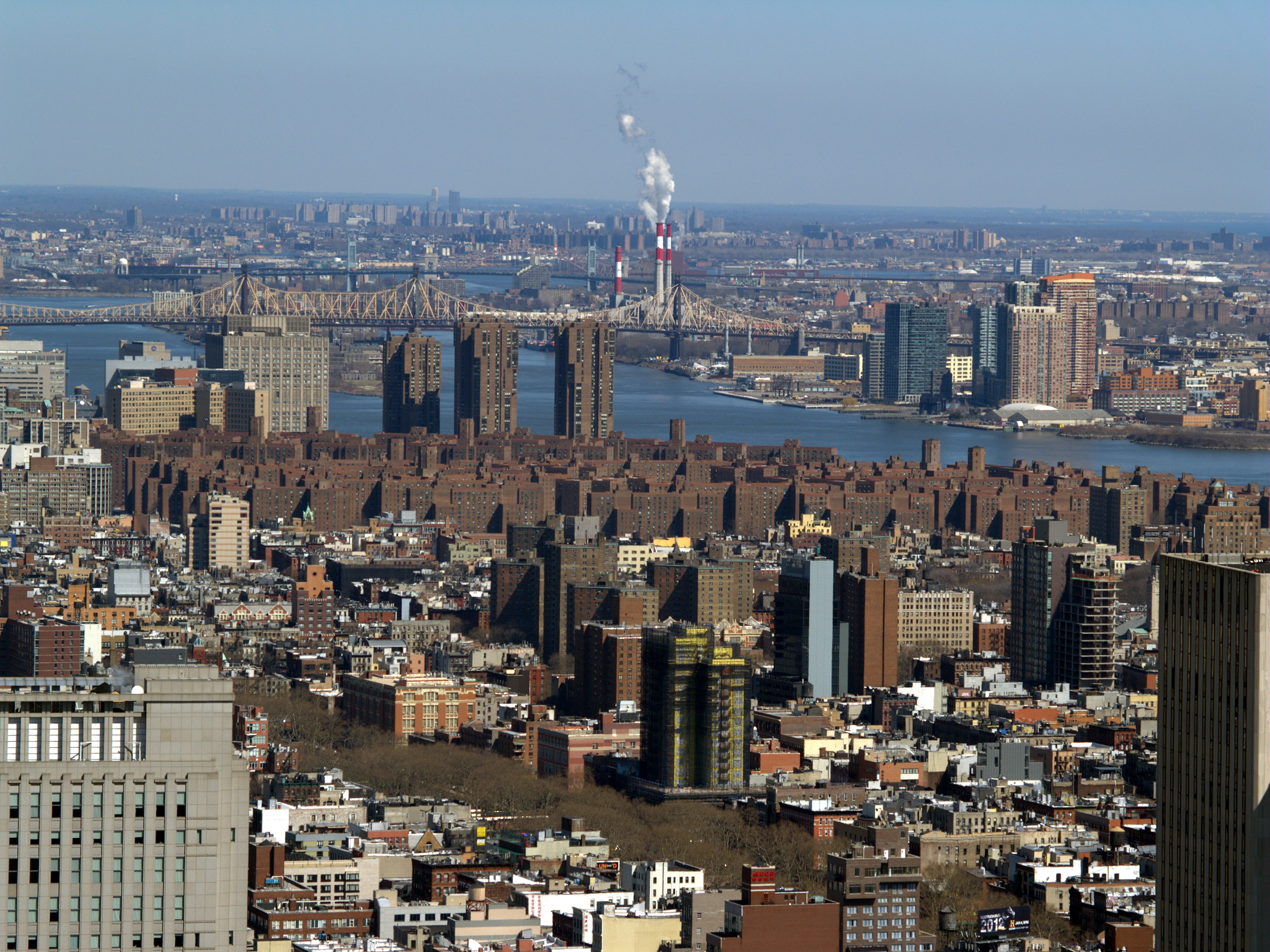 The mass of brown buildings in the center of the photograph is Stuyvesant Town, a residential development in New York City.